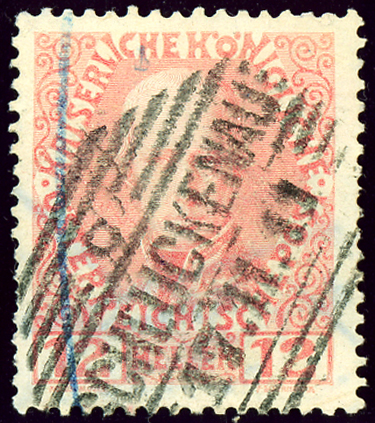 Austrian KK 12 heller stamp Jubilee issue 1908, cancelled at SCHLUCKENAU in 1911